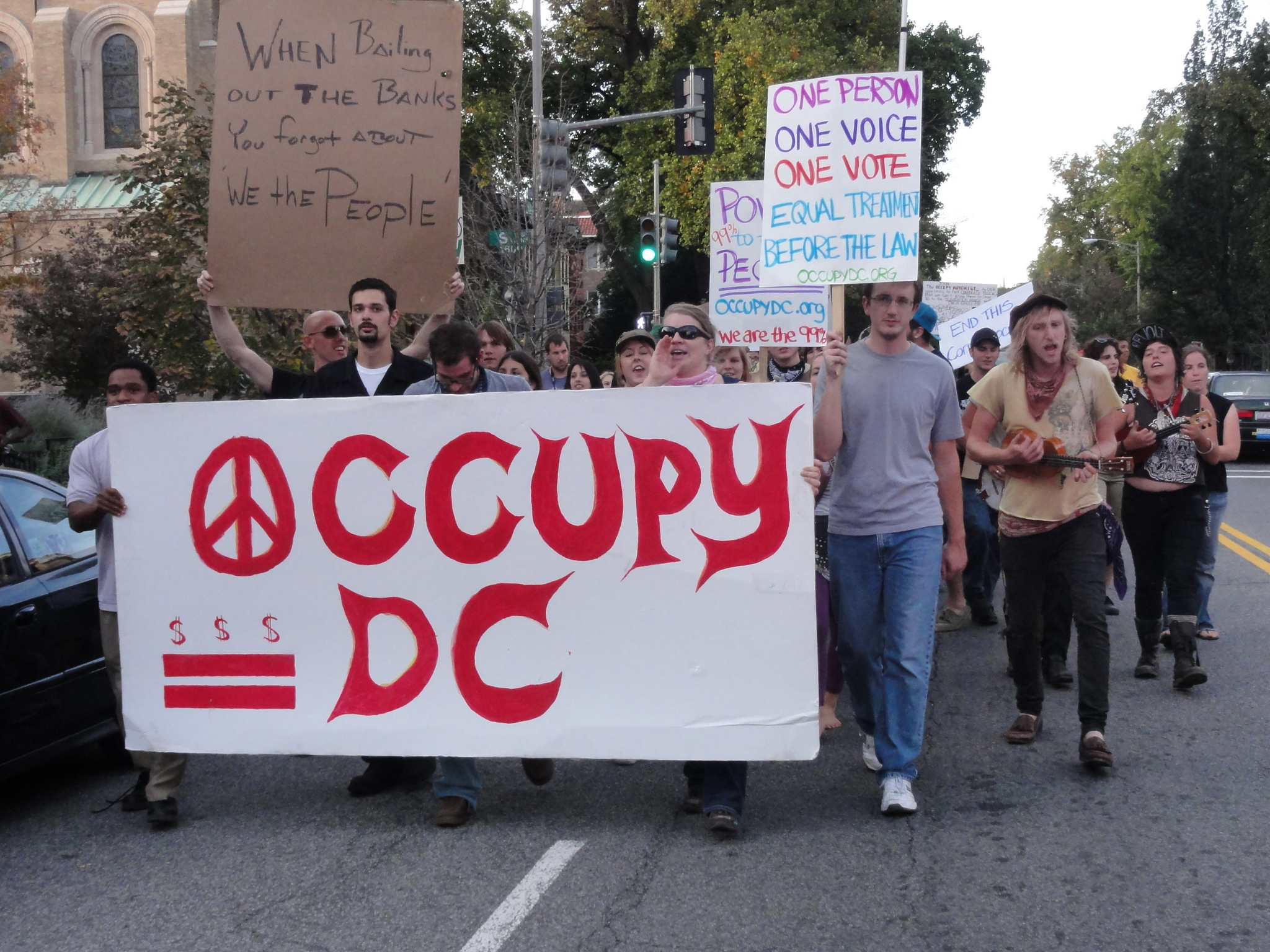 Occupy DC marchers taken October 9, 2011 on 16th Street.